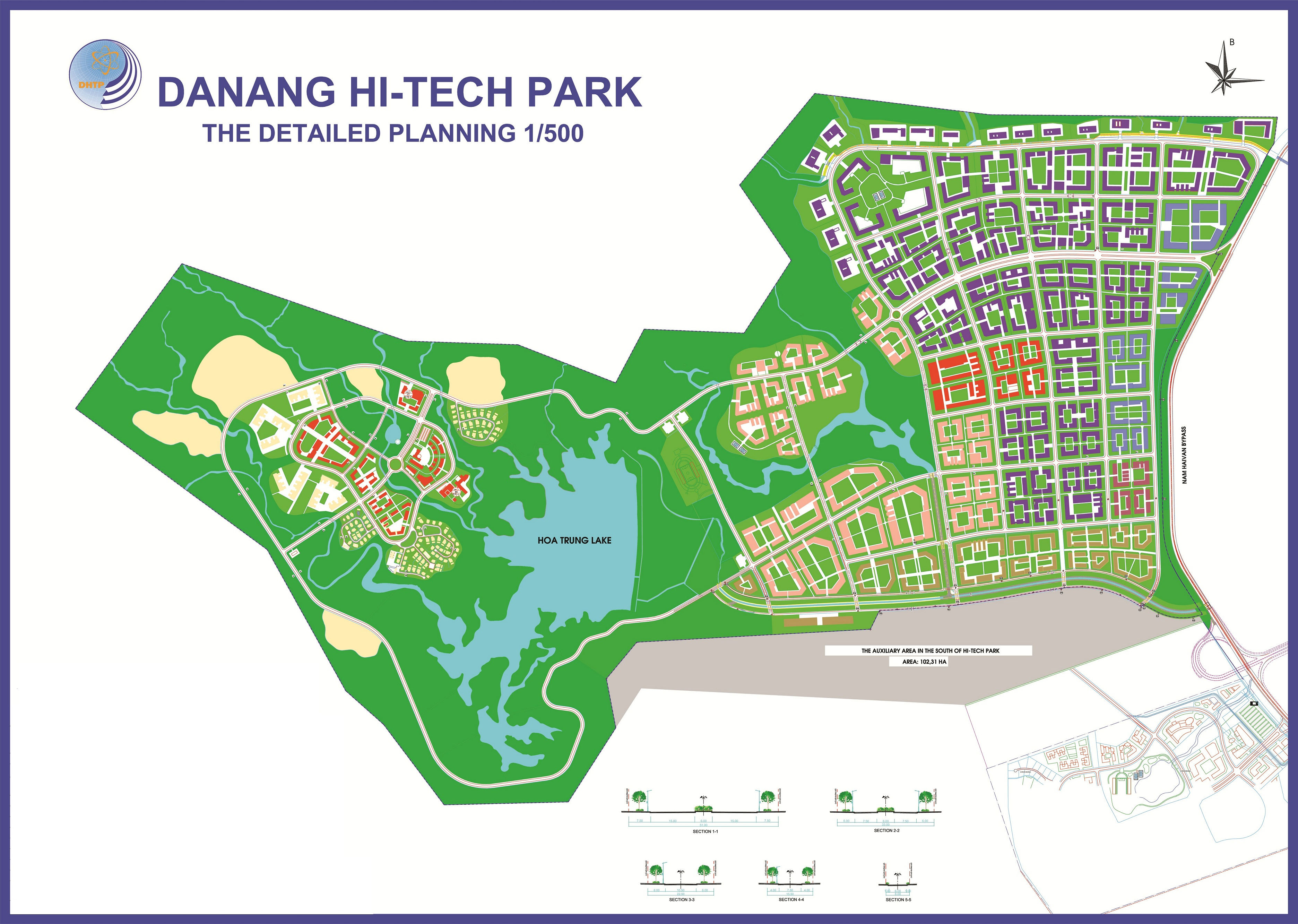 The detailed planning of Danang Hi-tech Park